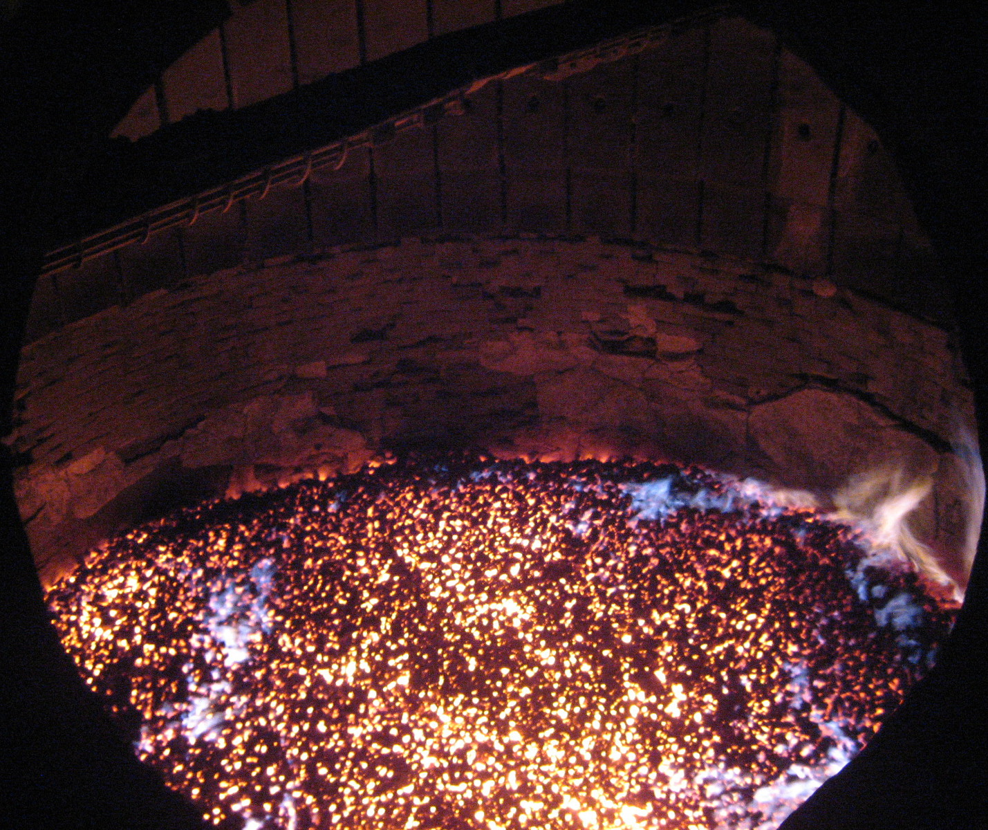 Dramatic picture of burning loads at the P6 blast furnace top, Hayange, France. The photo was taken by the manhole during a maintenance shutdown. For this event, the charge level is lowered a few meters and the top is opened to the atmosphere to allow auto-ignition of the carbon monoxide emanating from loads. We can see, from top to bottom: the crossing beams measuring temperature and gas composition, the throat armor made with vertical plates, the refractories (not cooled at this height) and the inflamed loads. The homogenous distribution of the flames is characteristic of a non-central-coke work.